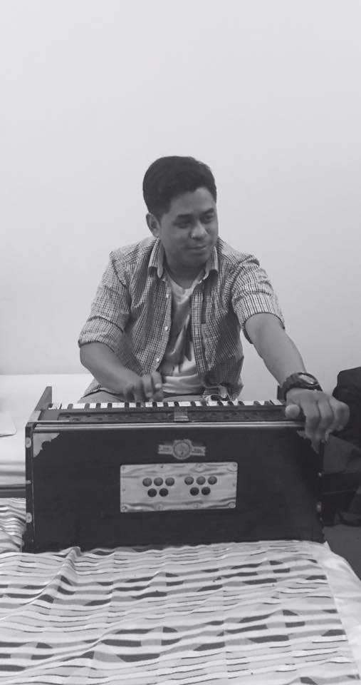 Shailesh Shrestha Rehearsaling.